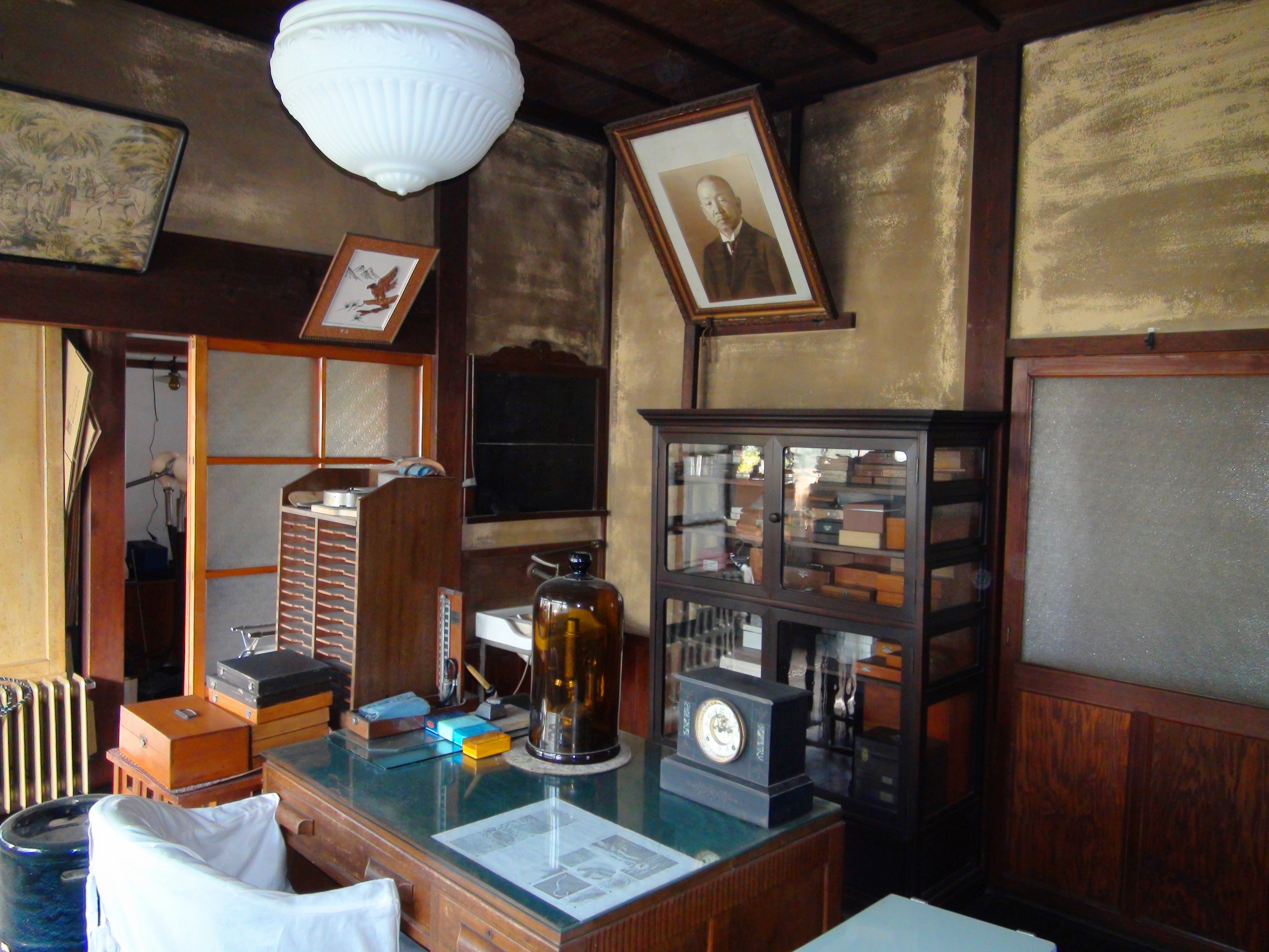 The consulting room of the medical office Dr. Sugiura（Schistosoma japonicum disease）